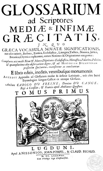 Title page of Du Cange, Glossarium ad scriptores mediae et infimae Graecitatis